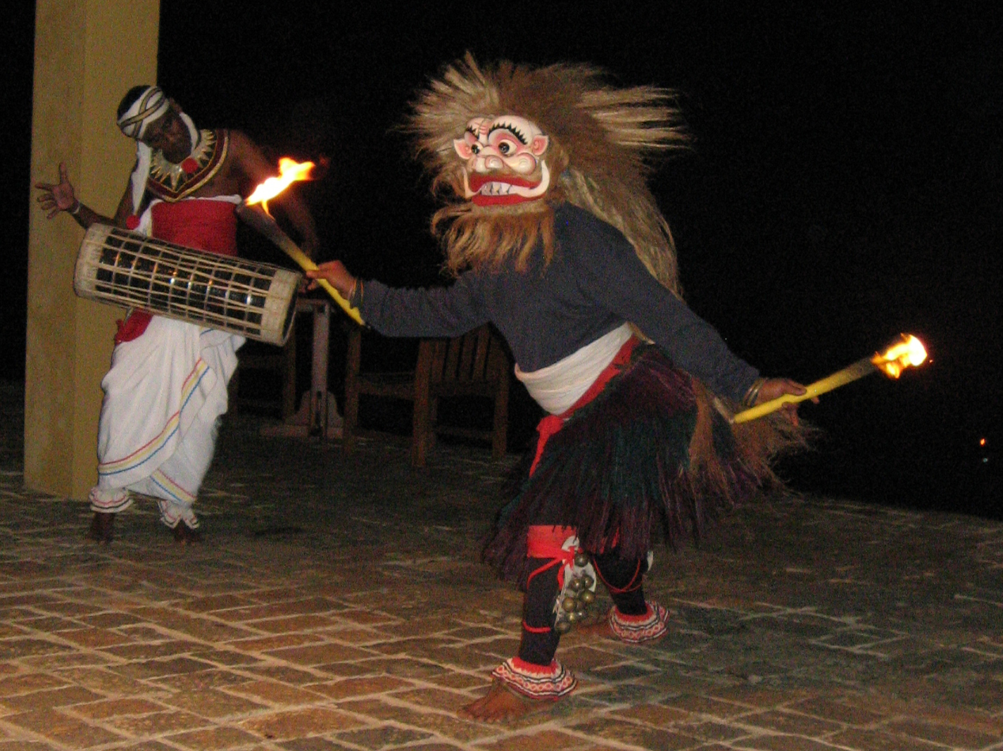 Kolam, literally "impersonation," uses elaborate masks to portray characters from a story and deliver social commentary. This example is from a performance in Galle.